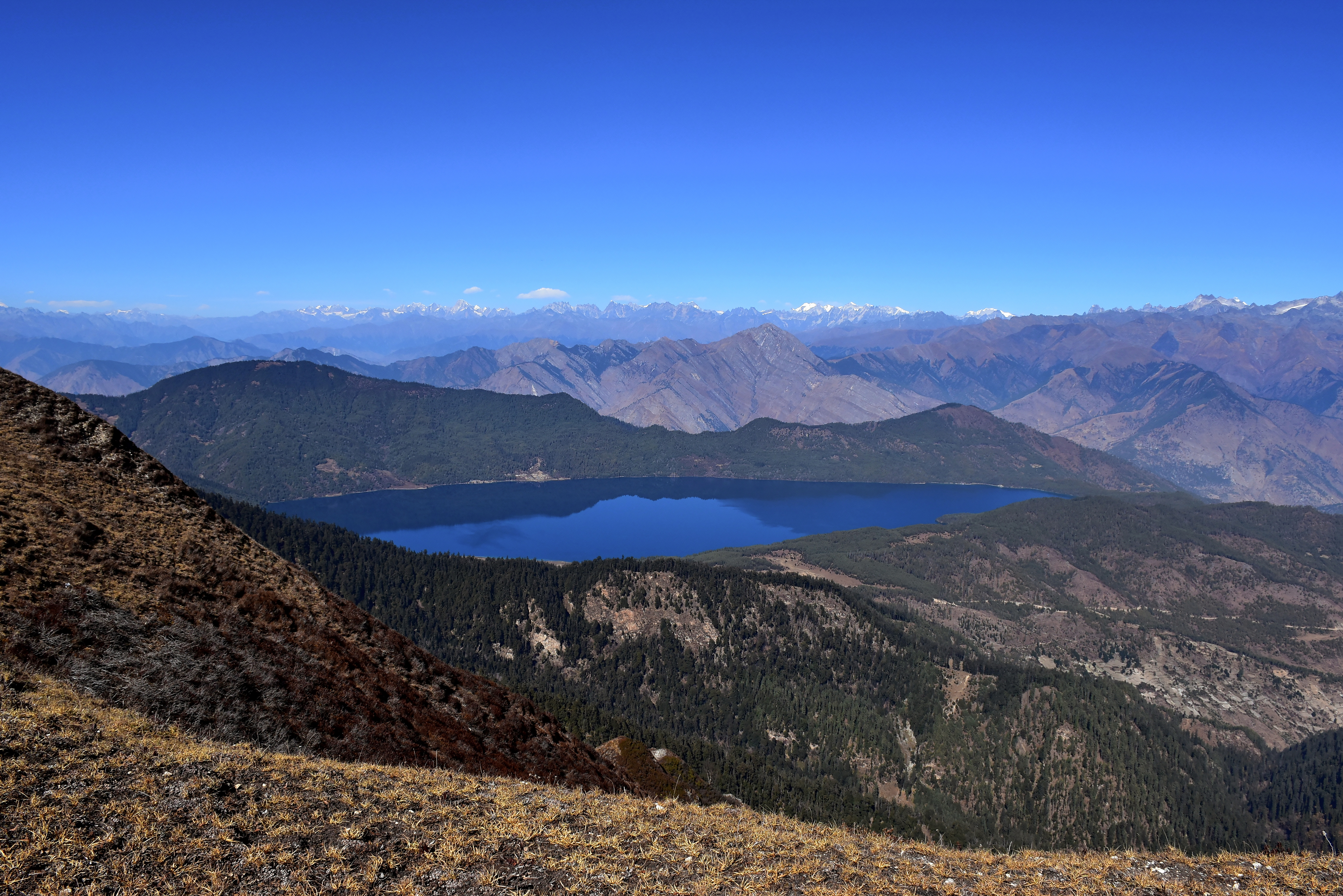 Rara Lake, the biggest and deepest fresh water lake in Nepal during winter season.